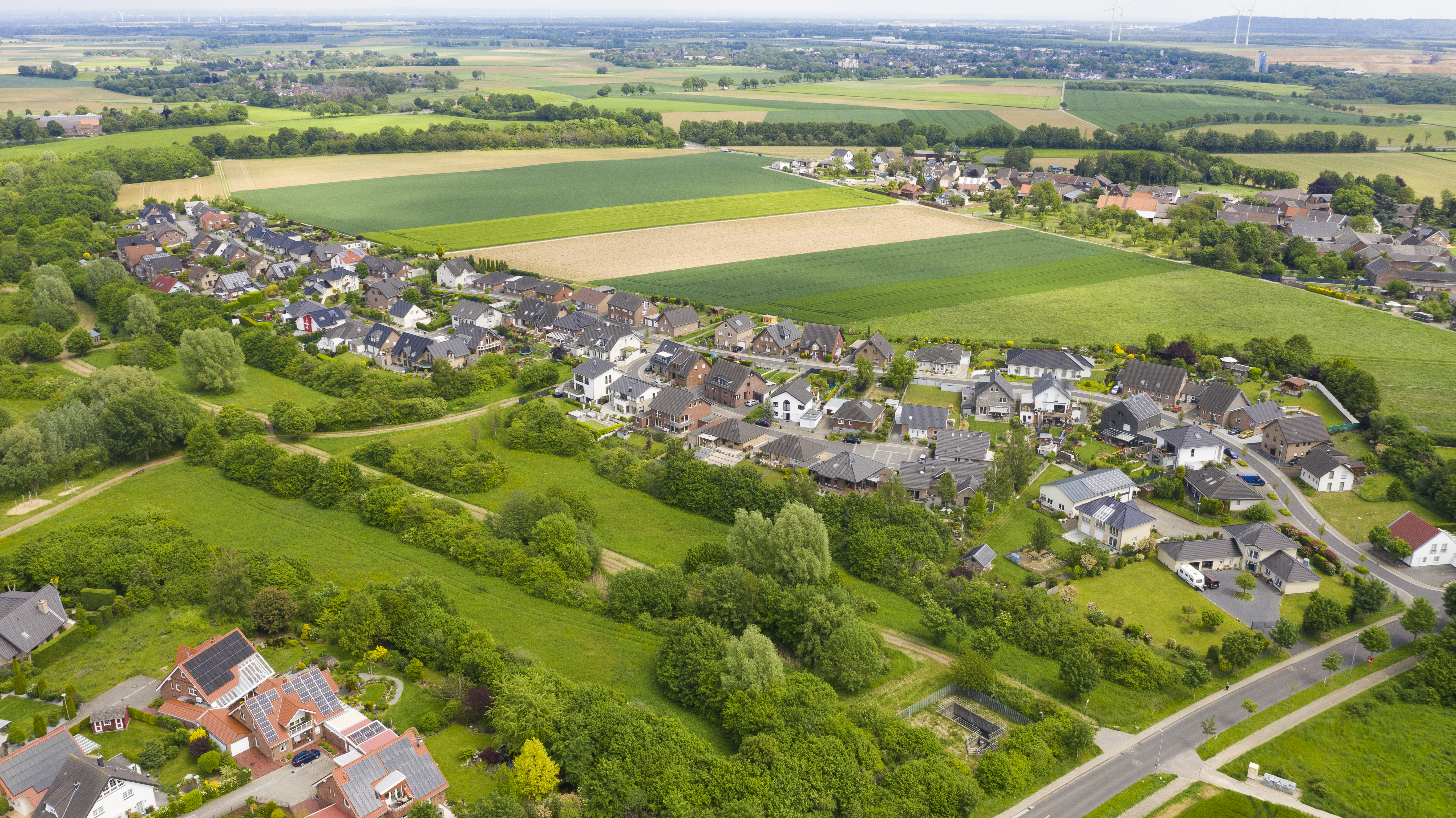 Aerial view of Neu-Spenrath, Jüchen, Germany